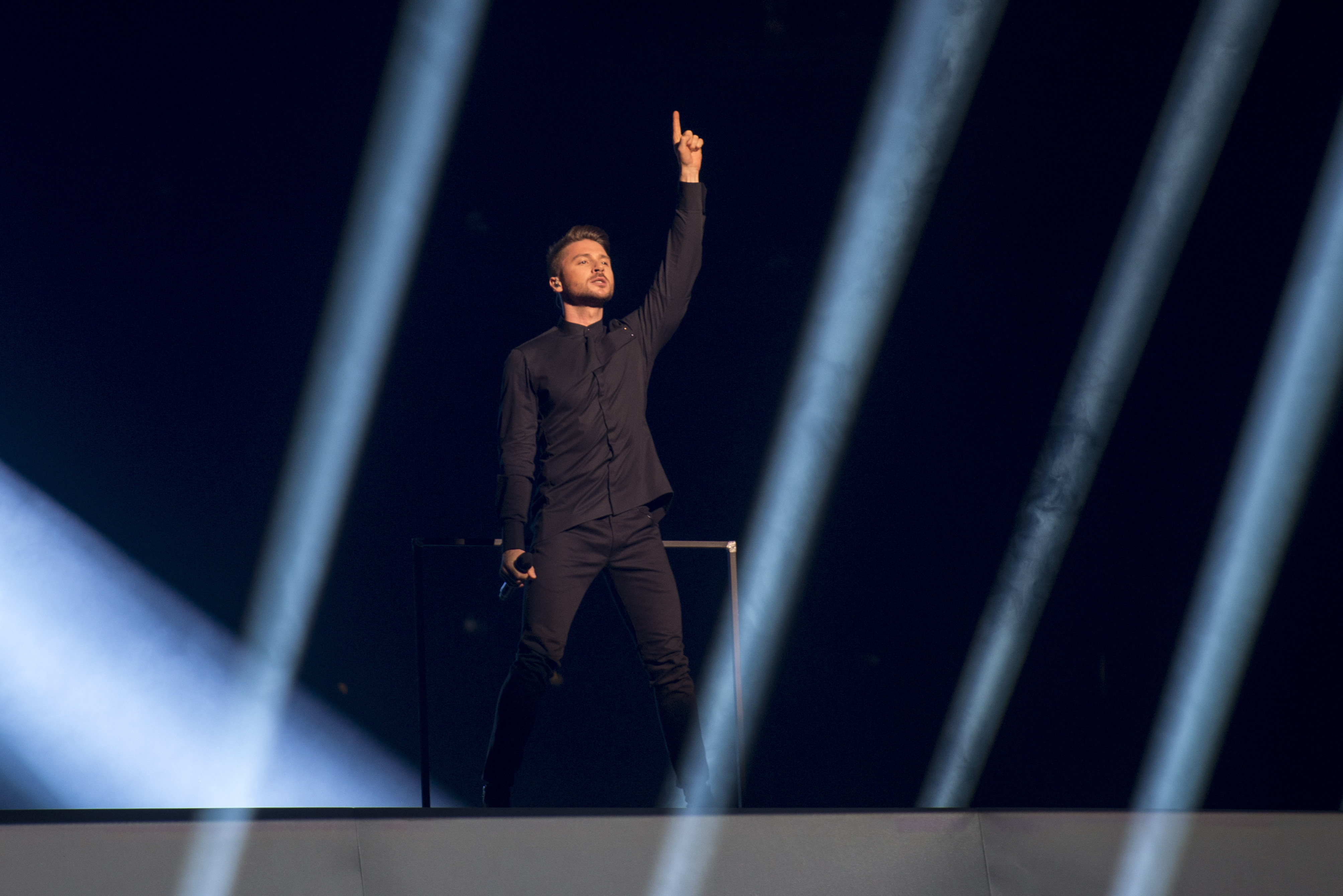 Sergey Lazarev representing Russia with the song "You Are the Only One" during a rehearsal before the first semi final of the Eurovision Song Contest 2016 in Stockholm. (Help translate this text)